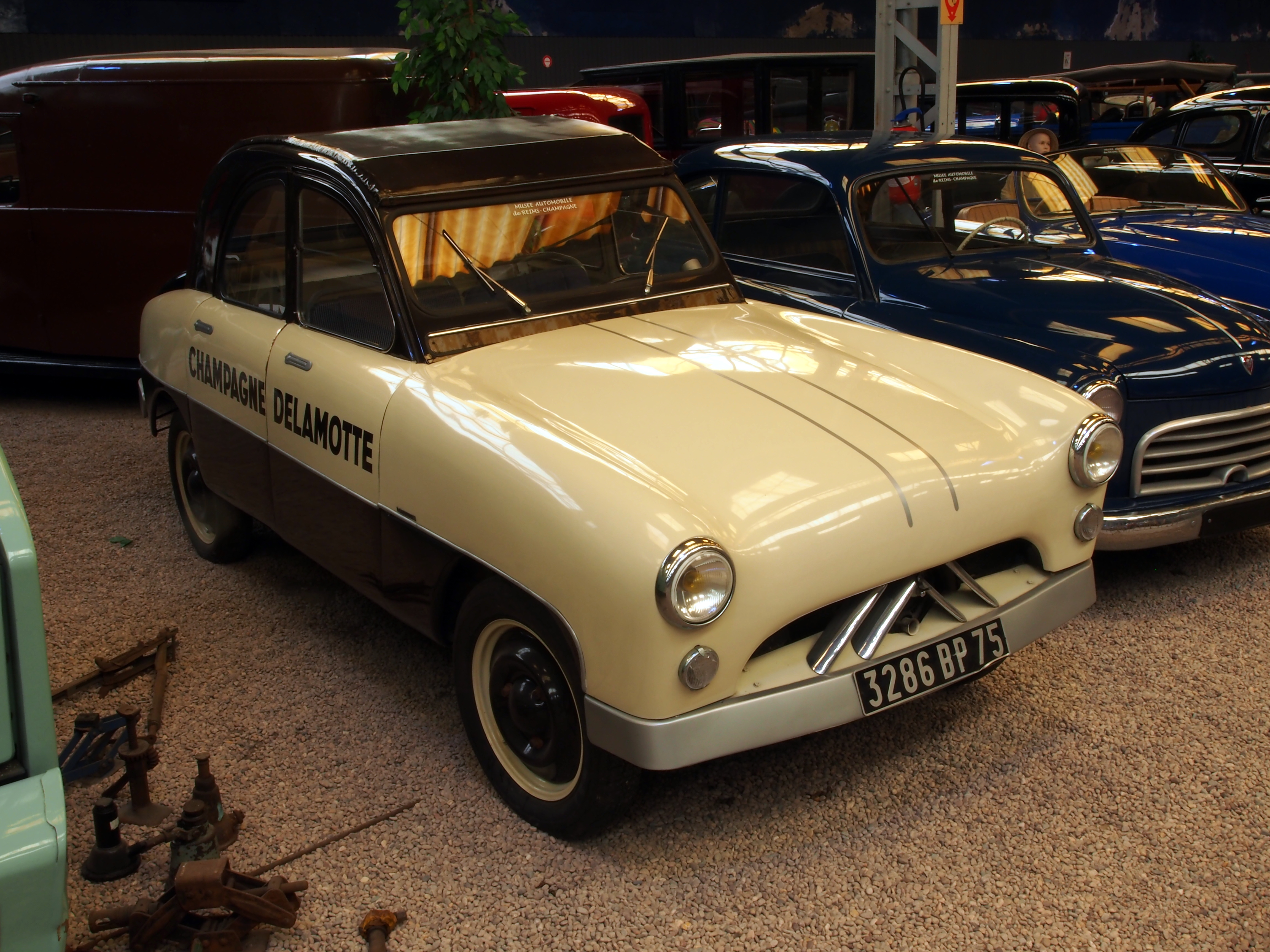 1953 Citroen 2CV with carroserie ANTEM de Philippe Charbonneaux